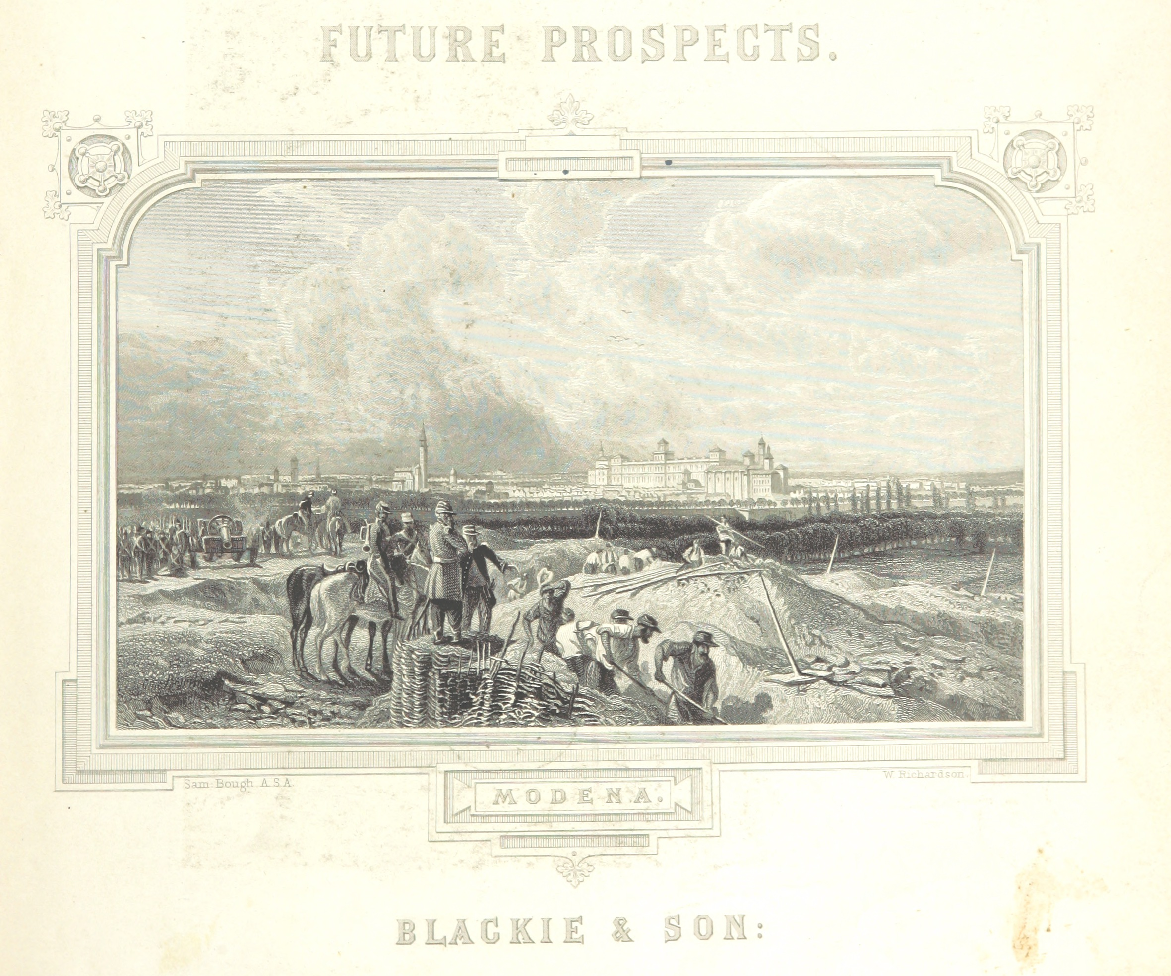 Modena